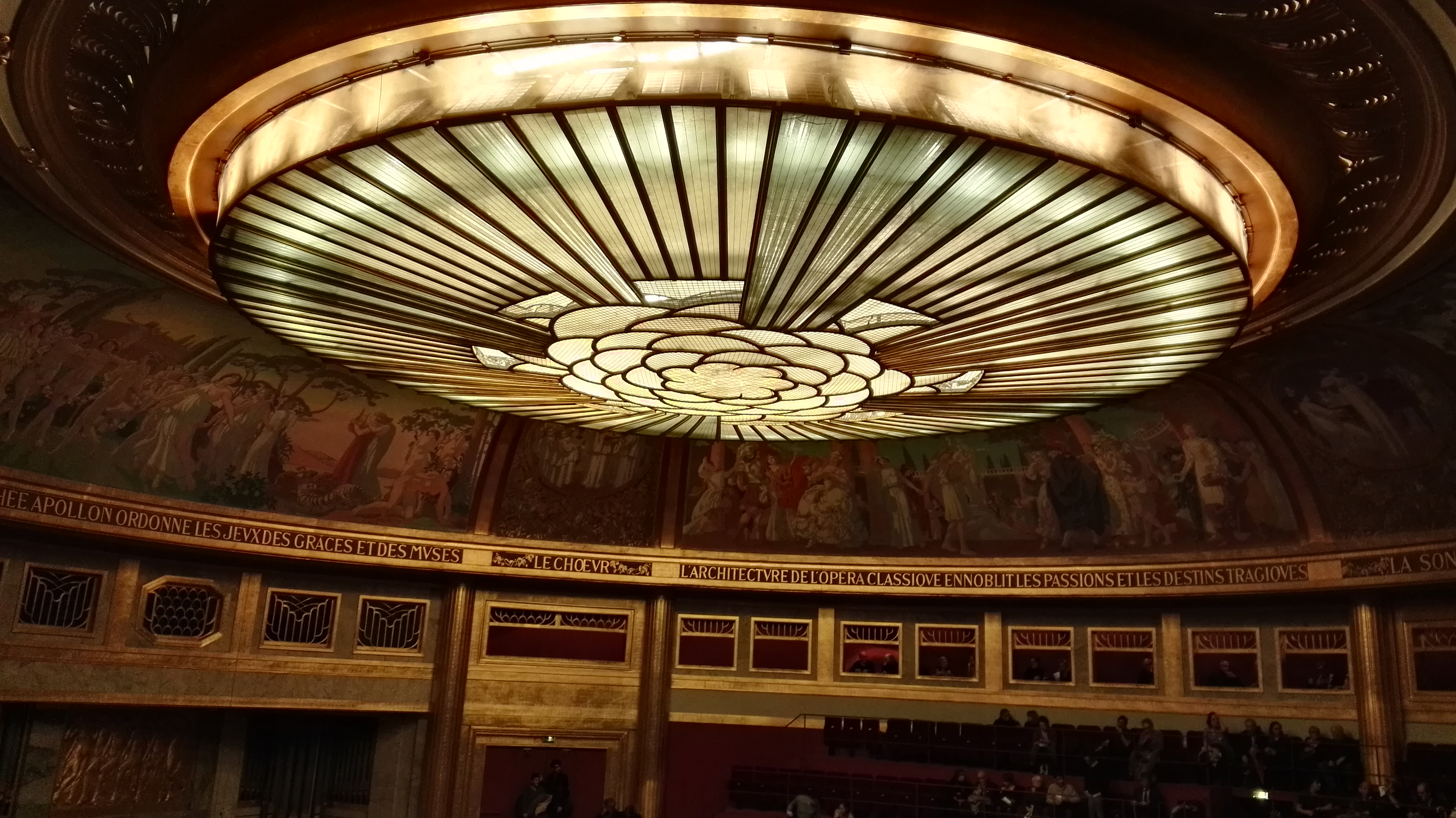 (Champs-Elysées) Avenue Montaigne The theatre has an opera house and 2 smaller halls: one dedicated to music and one for theatre plays. Arch. Auguste Perret, Antoine Bourdelle and Henry Van de Velde 1910-13. The style is a prefiguration of Art deco, built in concrete with a very modern design for the years.